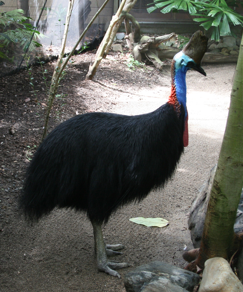 Southern casowarry (Casuarius_casuarius)